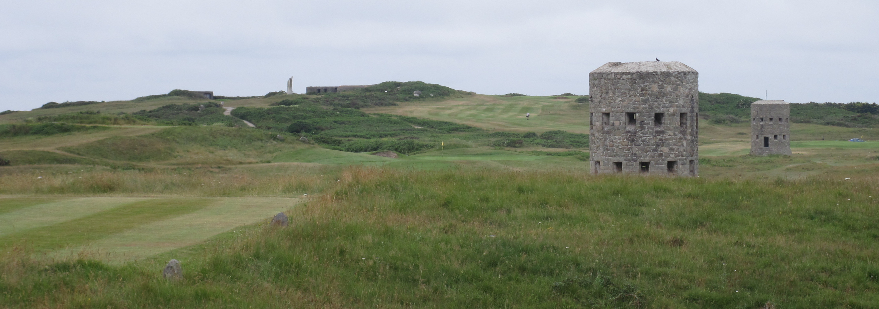 Guernsey, 2 July 2010: L'Ancresse Commons, martello towers at the Royal Guernsey Golf Club. the Millennium Stone on the ridge in the distance at left.